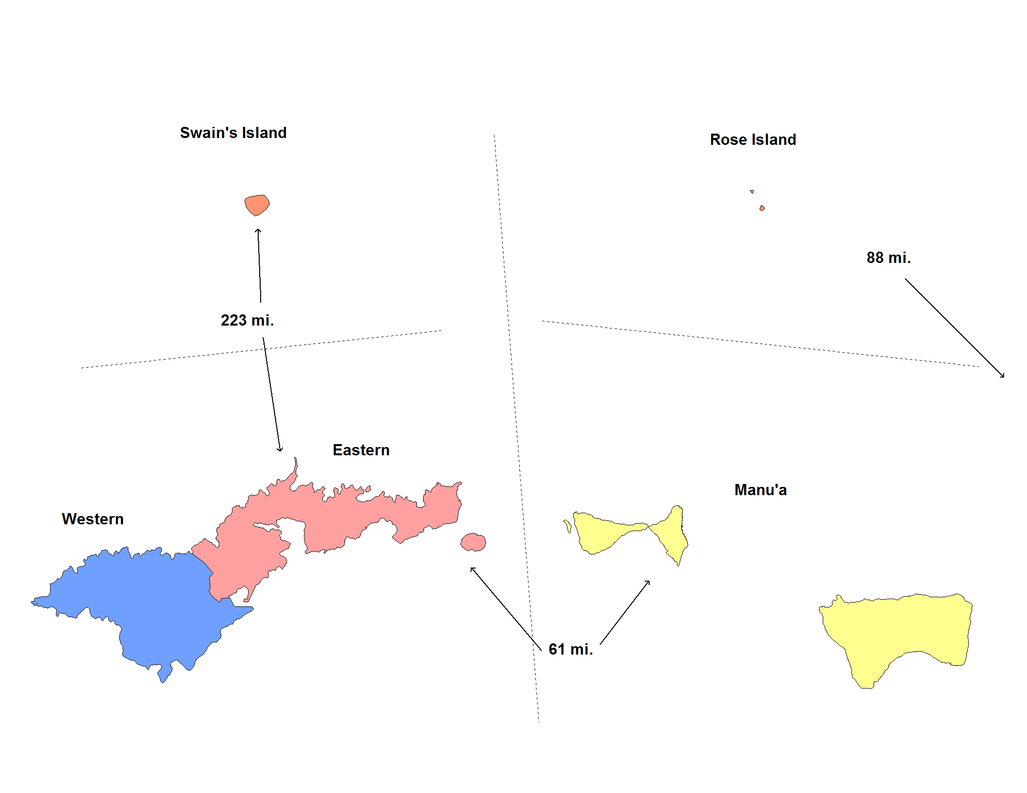 Map of the districts of American Samoa. Created by Rarelibra for public domain use. Created using MapInfo Professional v7.5 and various mapping resources.